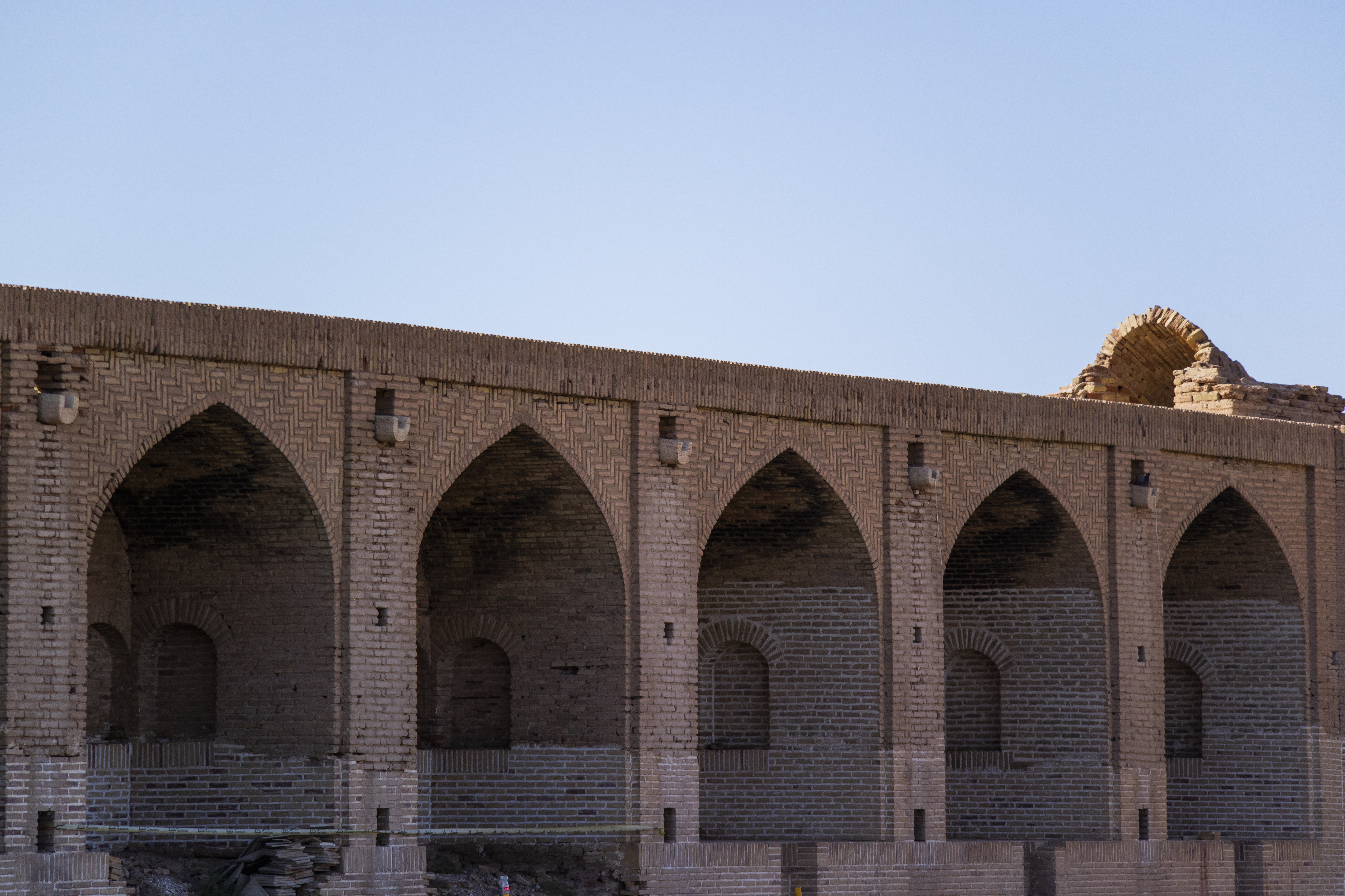 Deir-e Gachin Caravansarai is one of the greatest caravansarais of Iran which is located in the center of Kavir National Park. Its unique qualities is the reason it is called “Mother of Iranian Caravansarais”. It is located in the Central District of Qom County, 80 kilometers north-east of Qom (60 kilometers into Garmsar Freeway) and 35 kilometers south-west of Varamin. (Photo by: Mostafa Meraji, wiki loves monuments 2018)